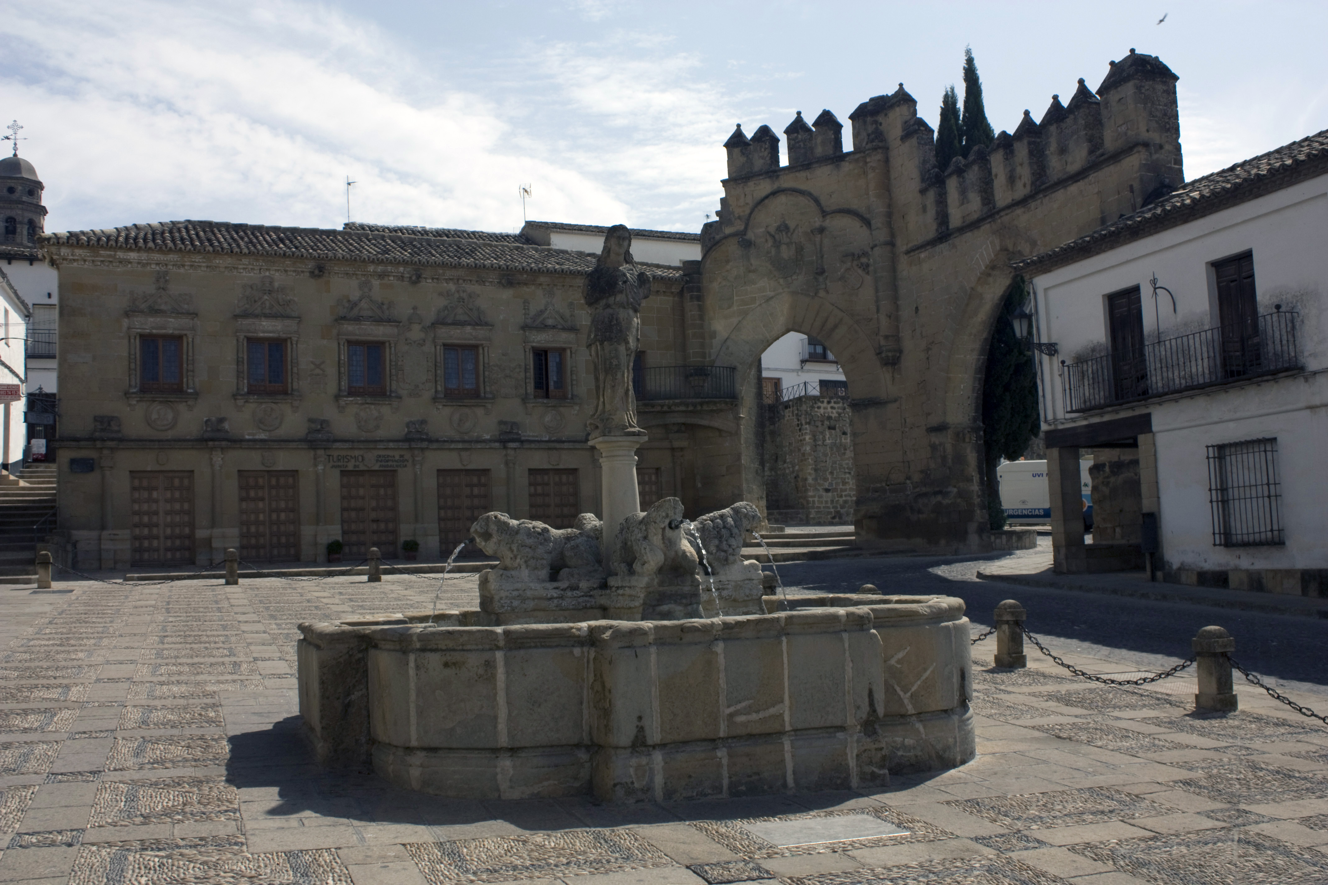 Audiencia Civil y Escribanías: At the top of the place the old "House of the People" built in 1535. Formerly Civil Court and Registry, the ground floor housed the archives, the first floor the civil court. it houses now the Office of Tourism's services.